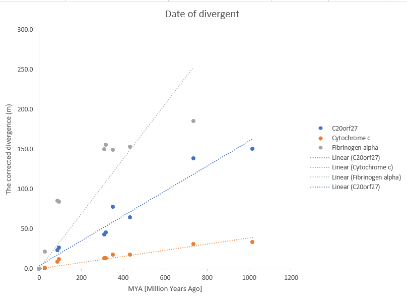 Graph of gene C20orf27 rate of evolution compared to cytochrome c and fibrinogen alpha.